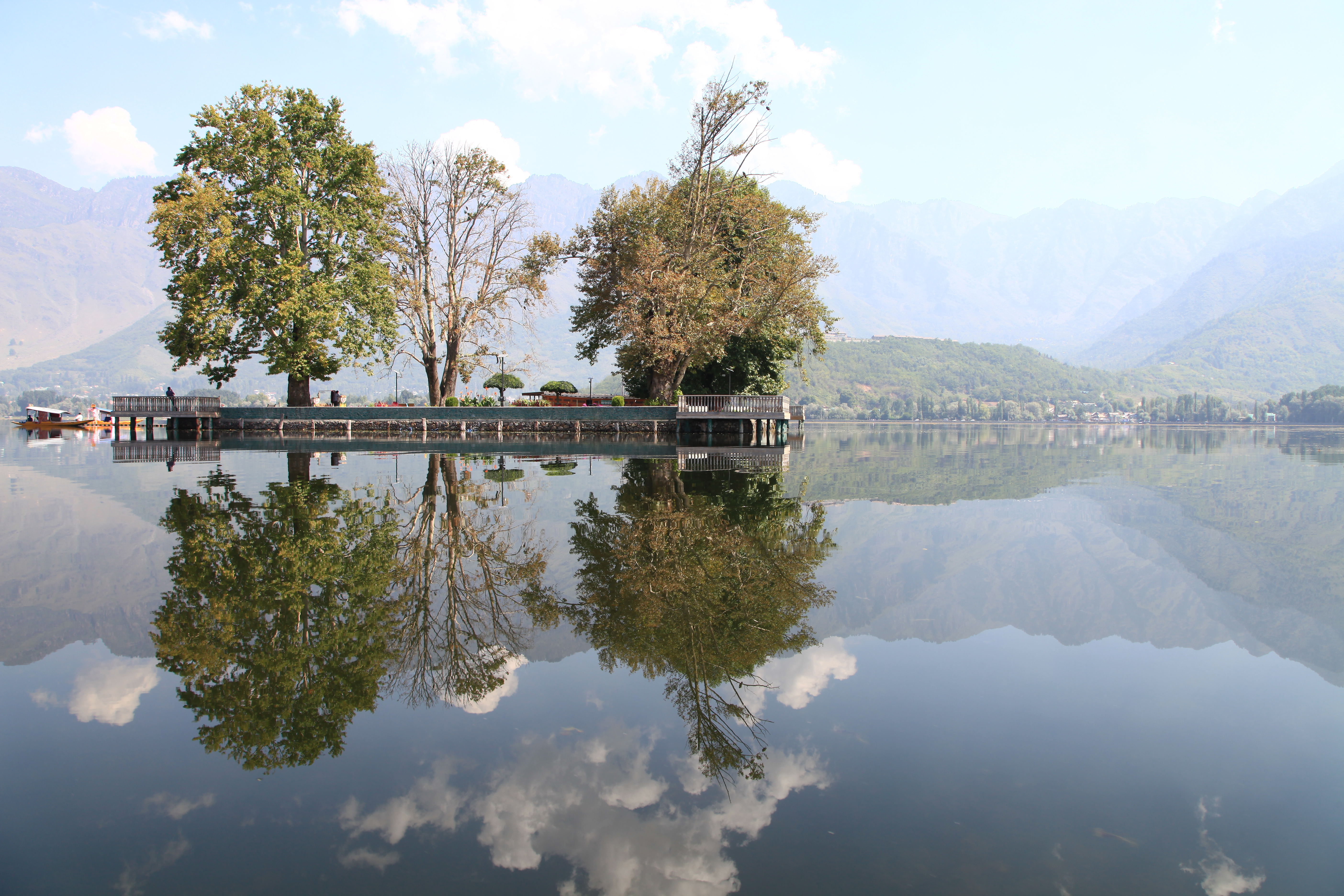 Char Chinar at Dal Lake, Kashmir